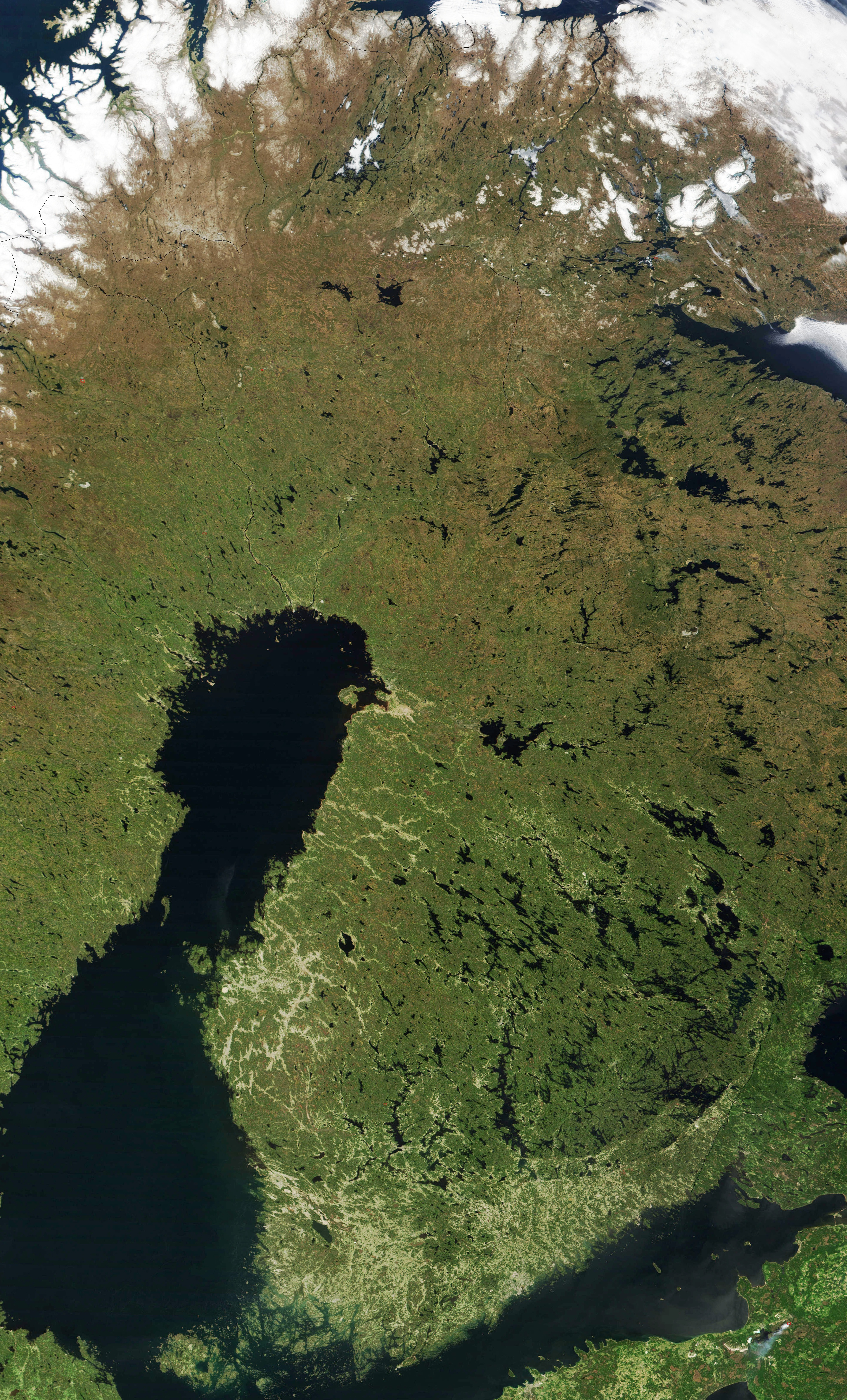 A satellite picture of Finland in May 2002.